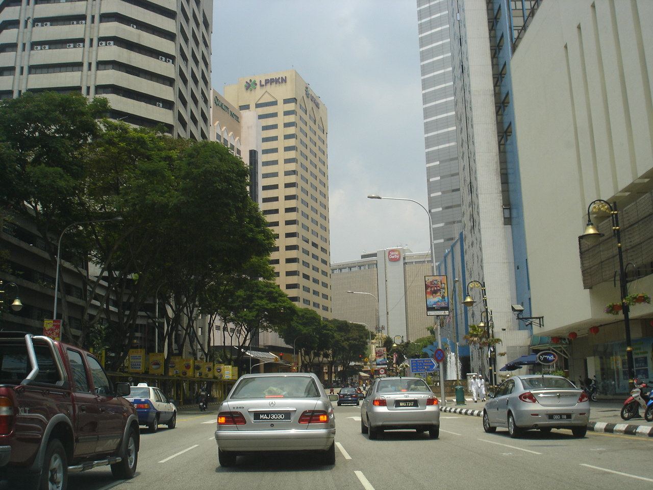 A view of Jalan Raja Laut near the MARA building in Kuala Lumpur.